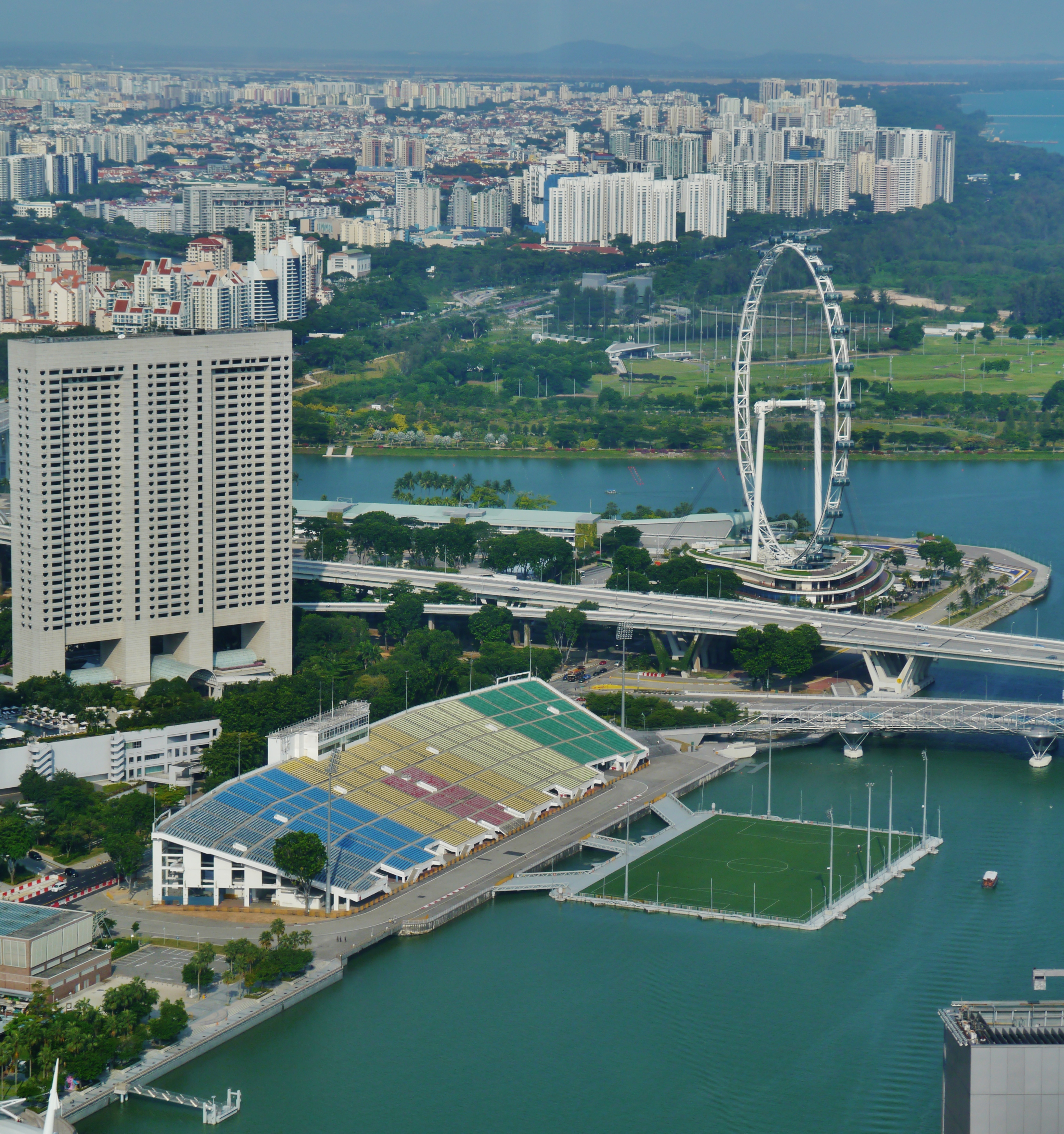 View from UOB PLaza to the Singapore Flyer & The Float @ Marina Bay, Singapore